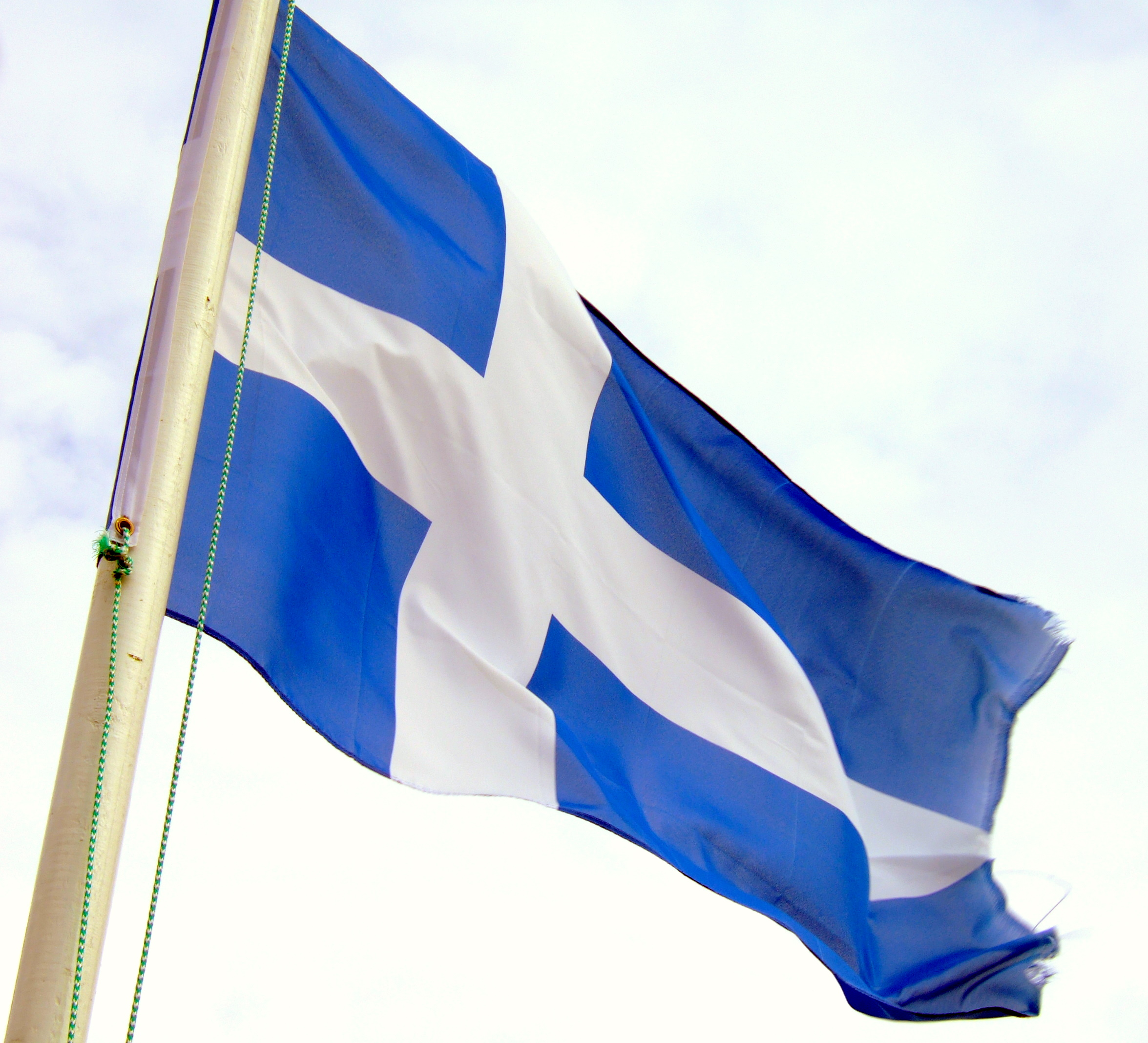 Own photograph. Saturation and colour balance altered.